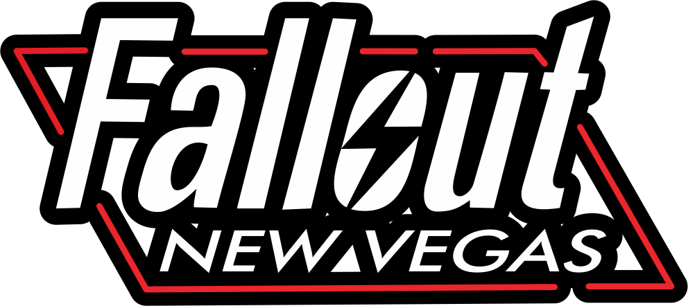 The logotype for Fallout: New Vegas.